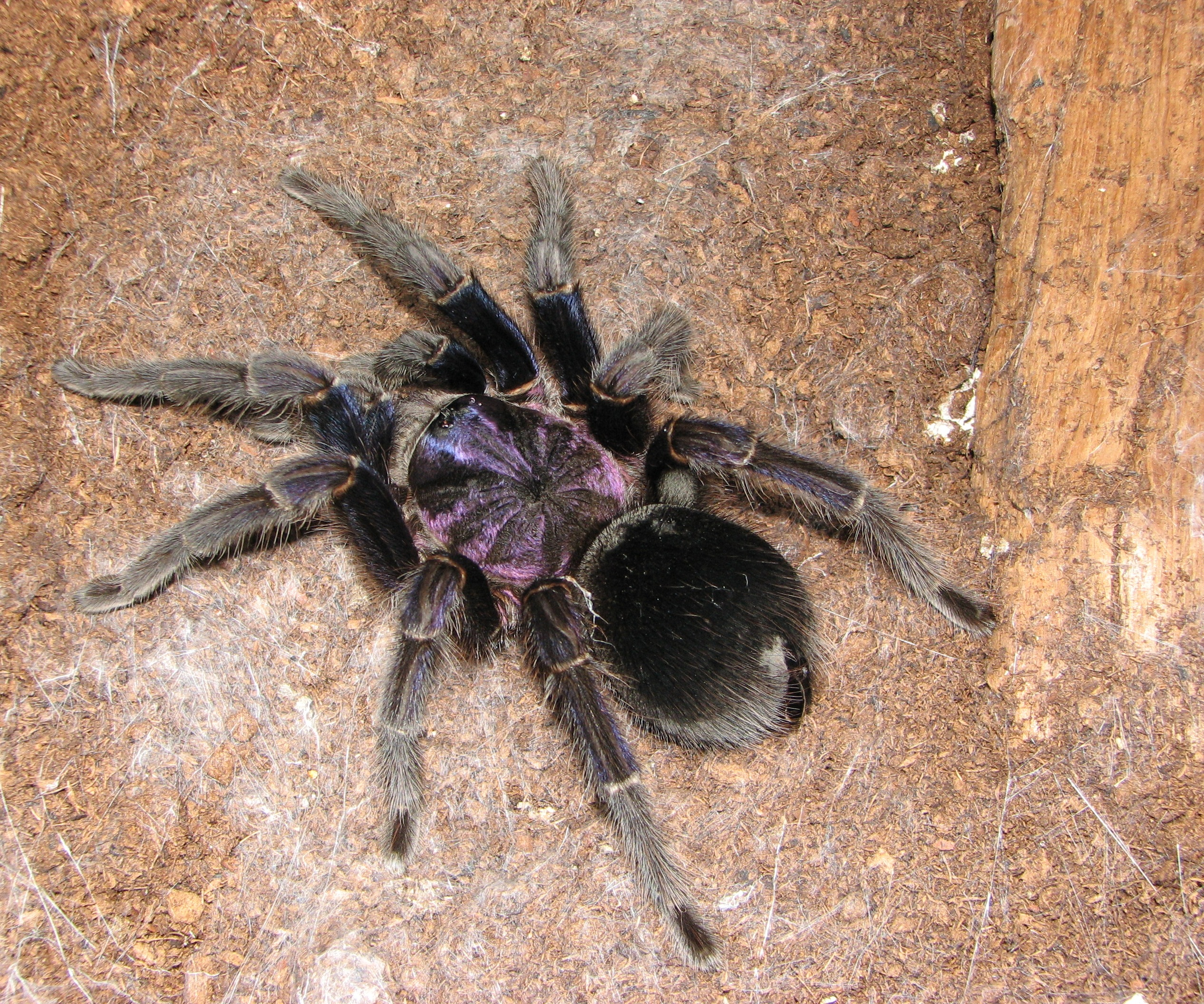 Phormictopus cancerides cancerides, adult female